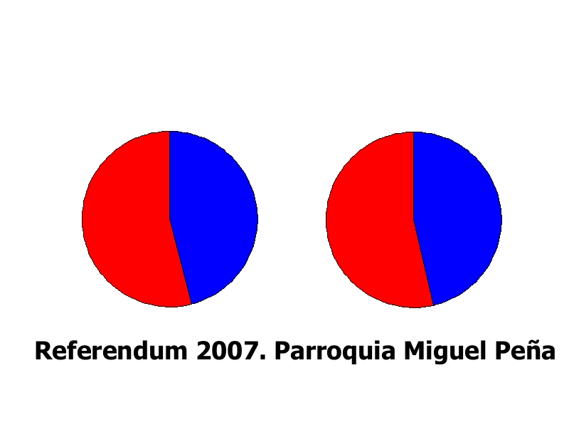 Results for constitutional referendum in Miguel Pena, Valencia, Venezuela, in 2007.